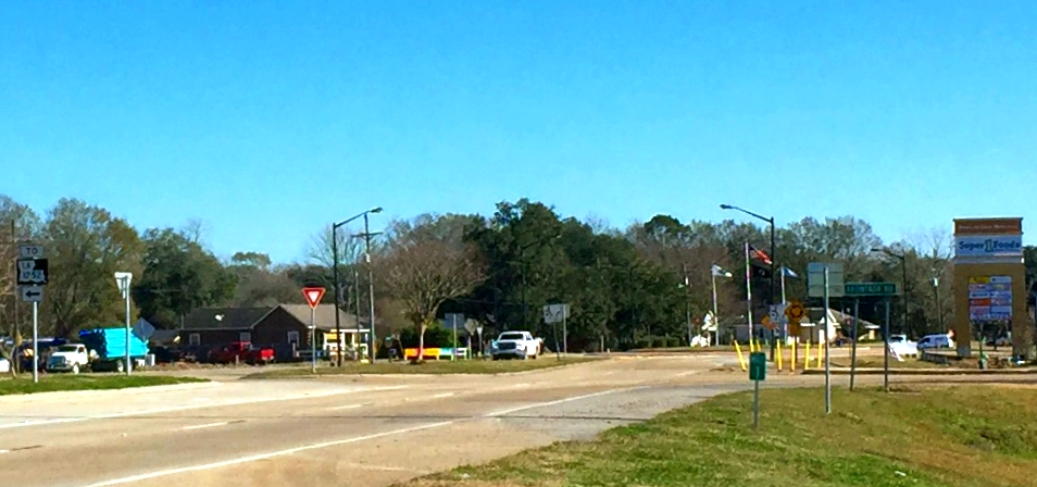 Hector Connoly Road at I-49 Frontage Road in Carencro, Louisiana. View from the northbound lane of I-49 Frontage Road, looking east.This photograph was taken with an iPhone 6 mobile phone and edited (color balance, saturation, brightness and contrast) using ArcSoft Photostudio 5.5